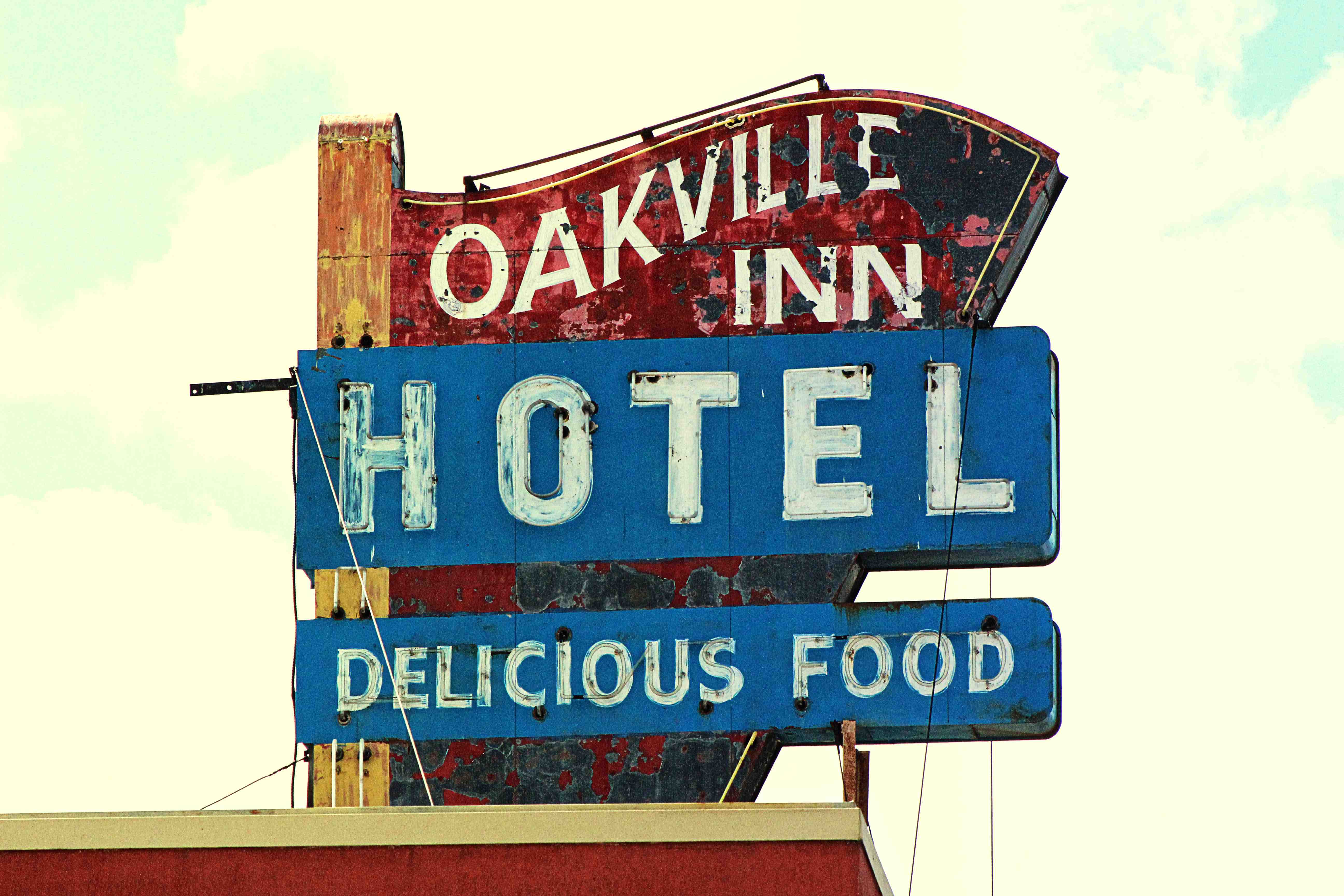 Sign for the Oakville Inn Hotel, located on Lakeshore Road in Oakville, Ontario, Canada.